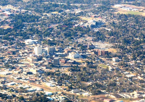 Aerial view of Downtown Lafayette, Louisiana from an airplane en route from Lafayette Regional Airport.